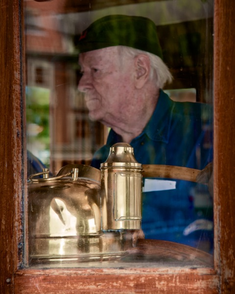 Dr. Murphy on his tug boat.